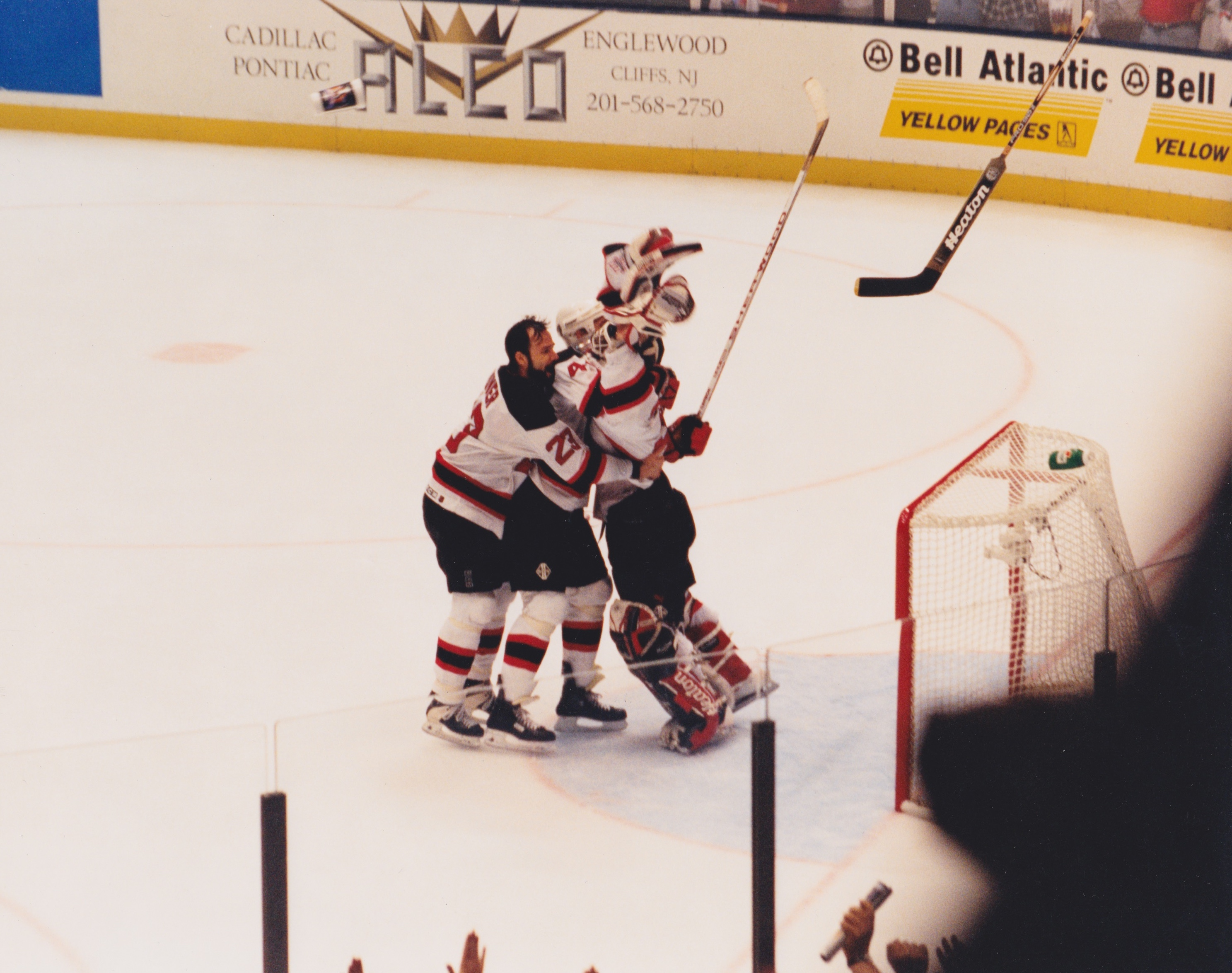 Celebrating their first Stanley Cup win, the Devils mob Marty Brodeur.